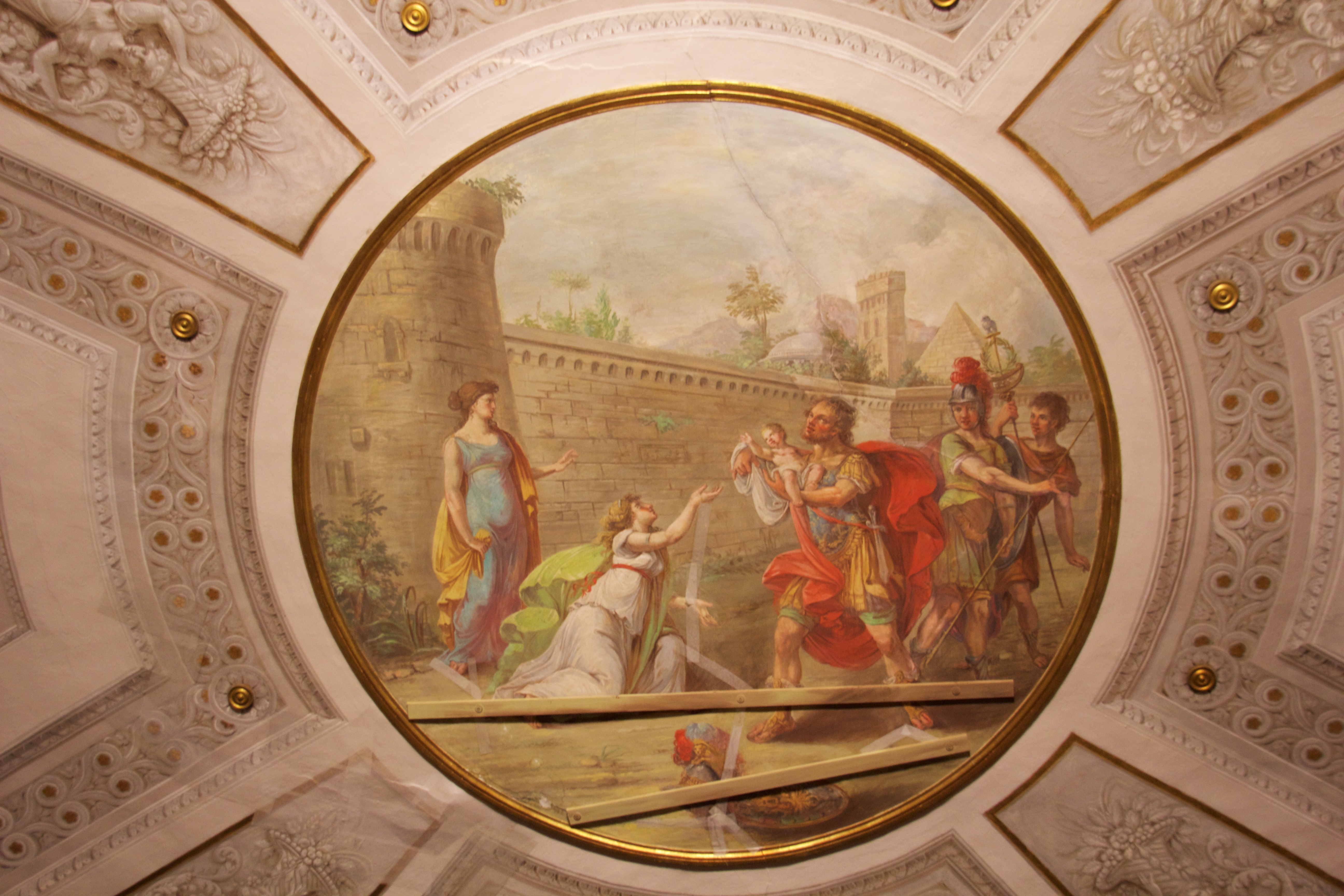 The 'Hector and Andromache" room. Castello Estense, Ferrara, Italy.